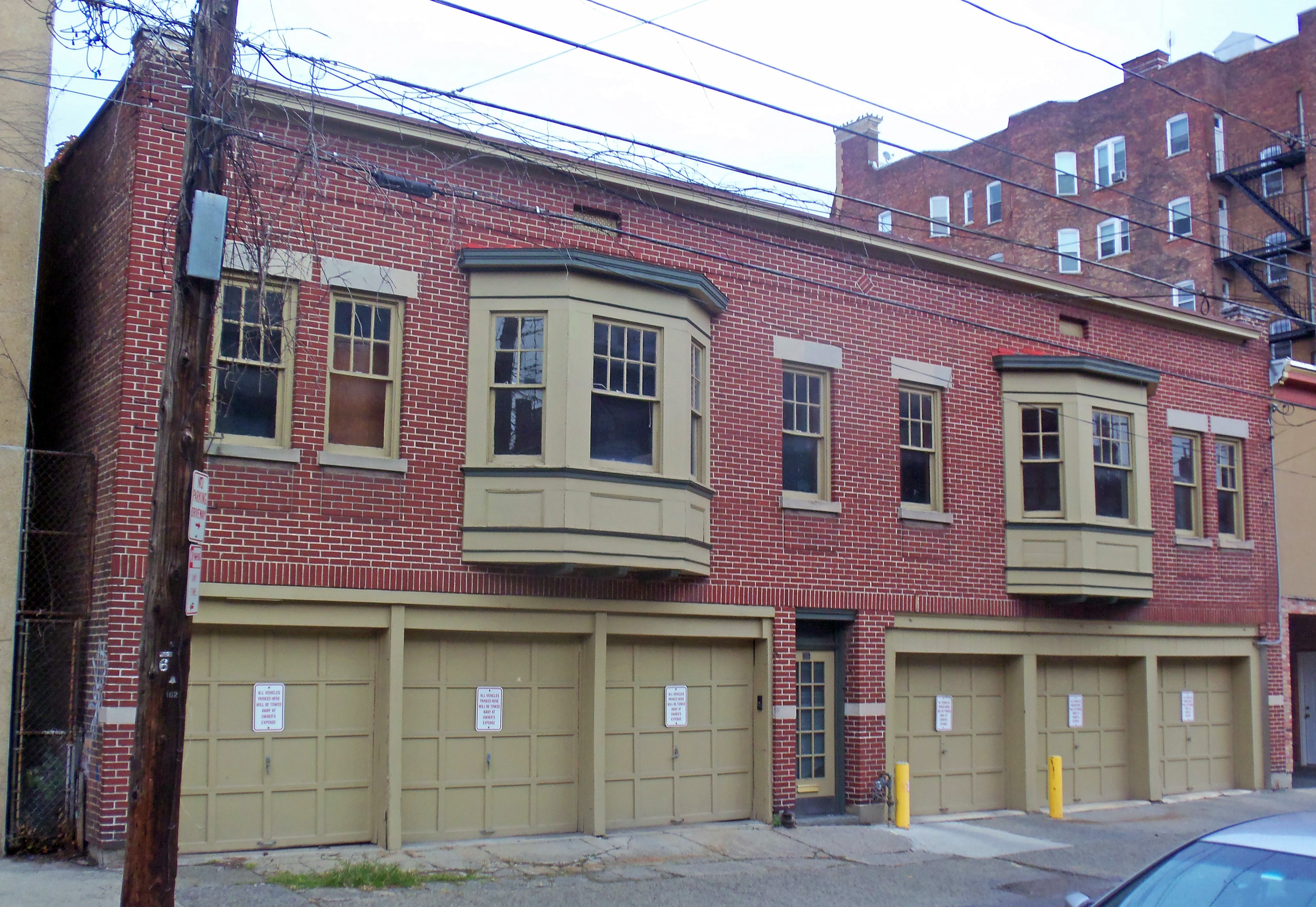 Carriage house of Walter Merchant House, on State Street, Albany, NY, USA